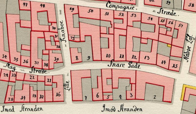 Snaregade and the first part of Magstræde as seen on Gedde's district map of Copenhagen, Denmark